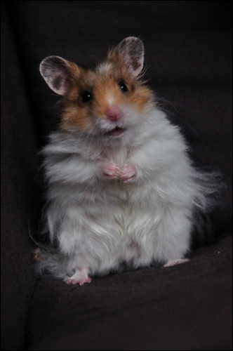 Mesocricetus auratus, Syrian hamster, Golden hamster, long haired